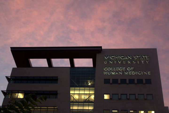 Michigan State University College of Human Medicine has expanded its campus in Grand Rapids, MI with the opening of the Secchia Center. This $90 million investment in Grand Rapids "Medical Mile" joins Van Andel Research Institute, the DeVos Children's Hospital and Spectrum Butterworth Hospital as part of Michigan State University's commitment to the study and advancement of medical sciences in Michigan. This picture was taken on June 19th, 2010 by myself and I hereby release it into the public domain.